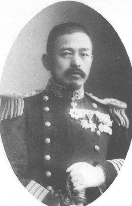 Gitarou Ishii is an Imperial Japanese Navy Rear Admiral